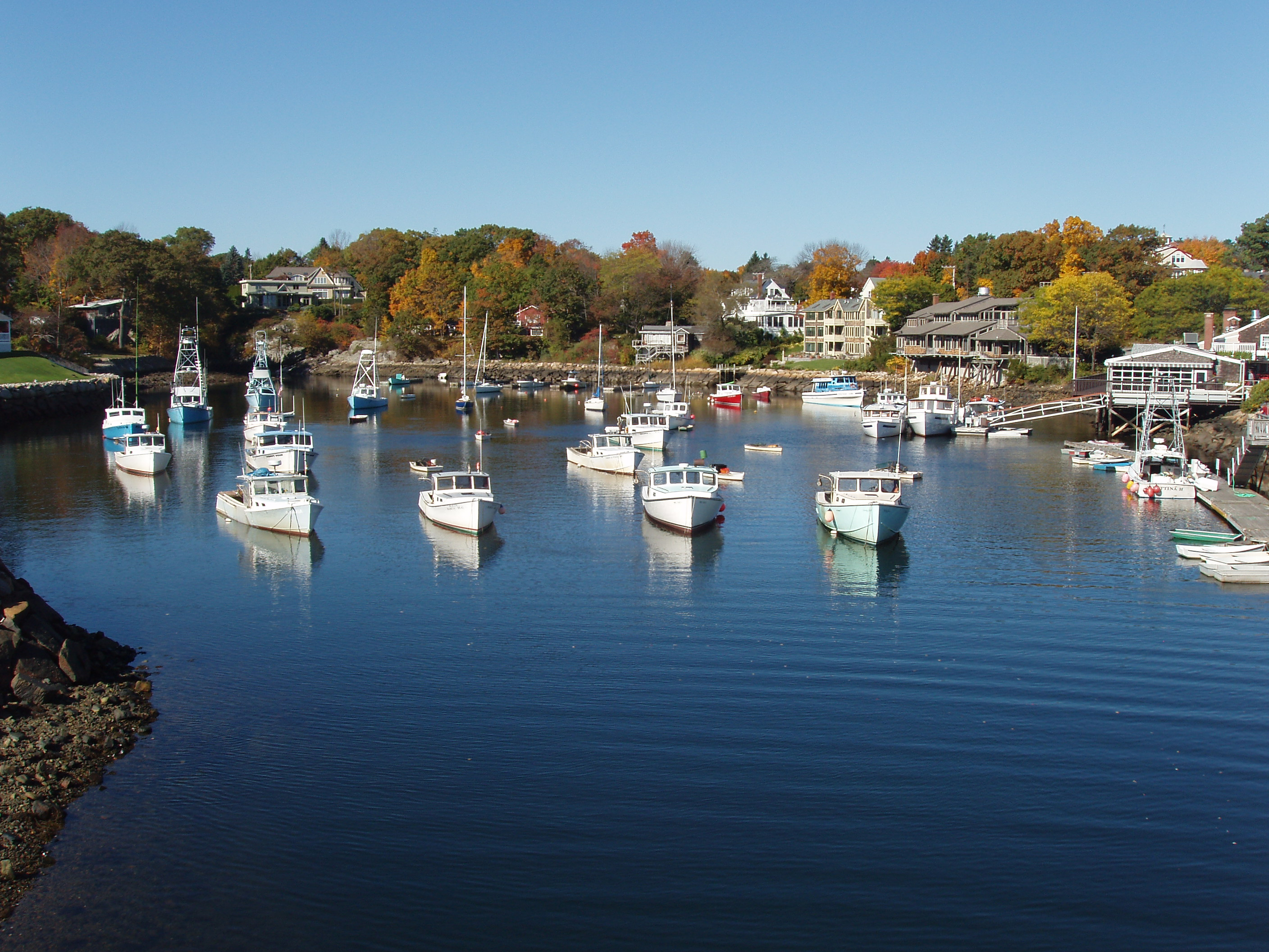 View from the bridge at Perkins Cove in Ogunquit, Maine - OpenStreetMap(Info)